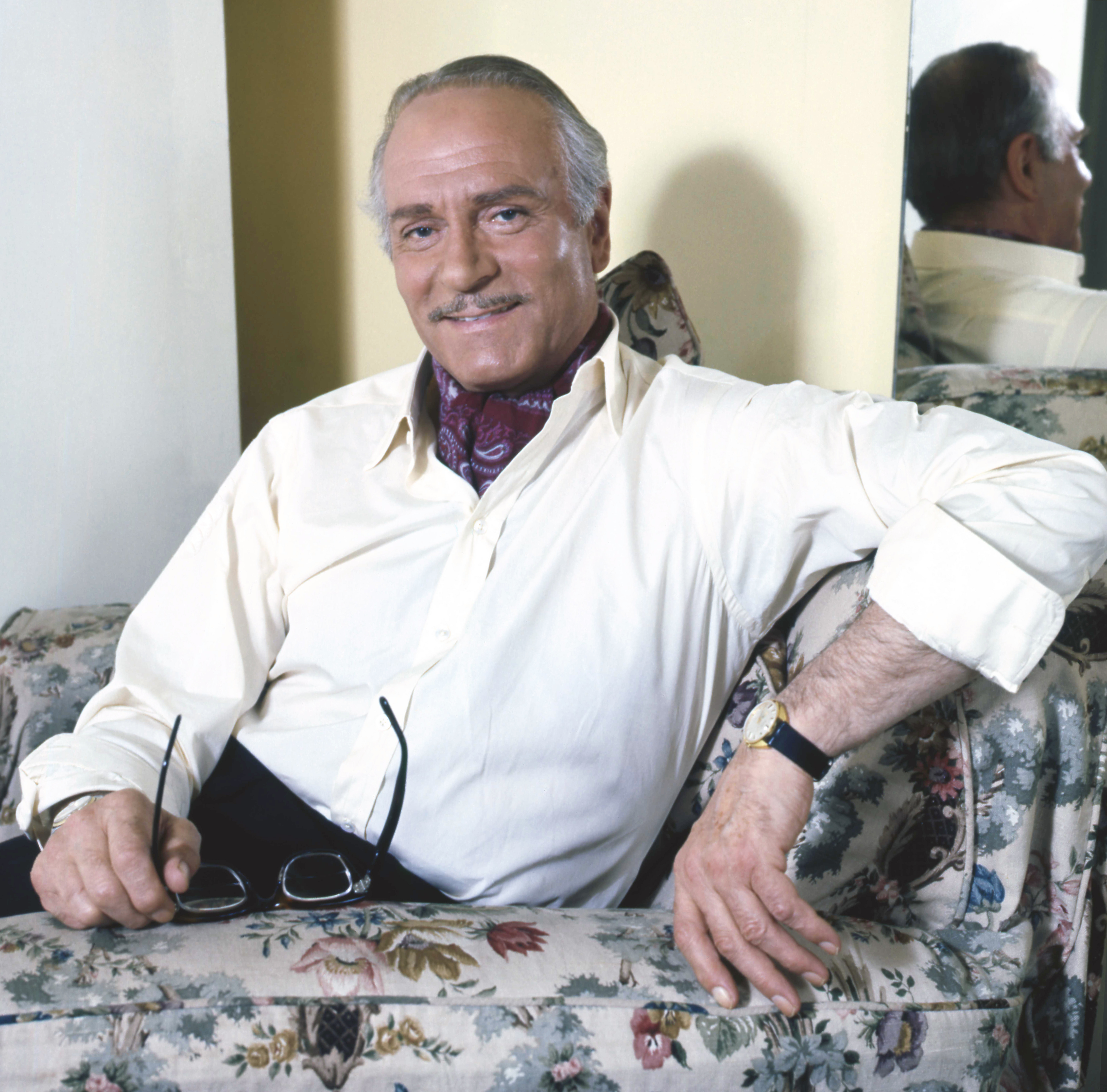 Portrait of the British actor Laurence Olivier.